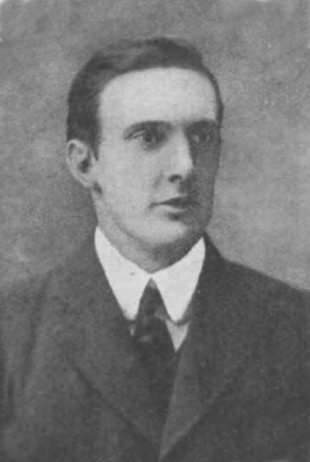 Photograph of J. Lewis Bonhote